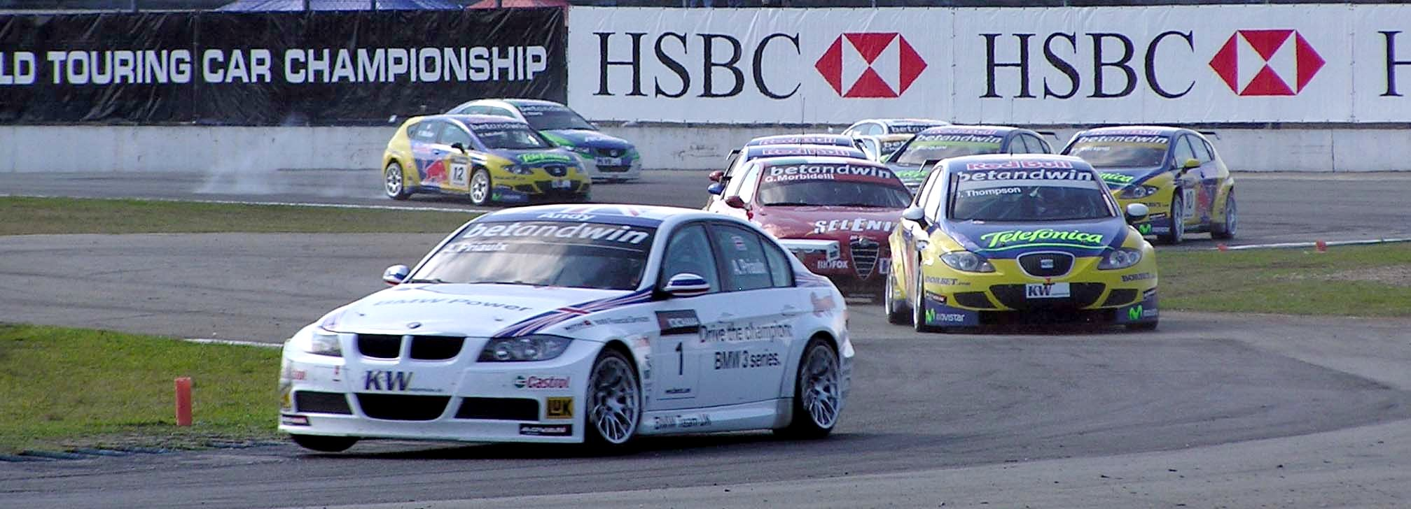 World Touring Car Championship 2006 Race 10 Curitiba #1 Andy Priaulx